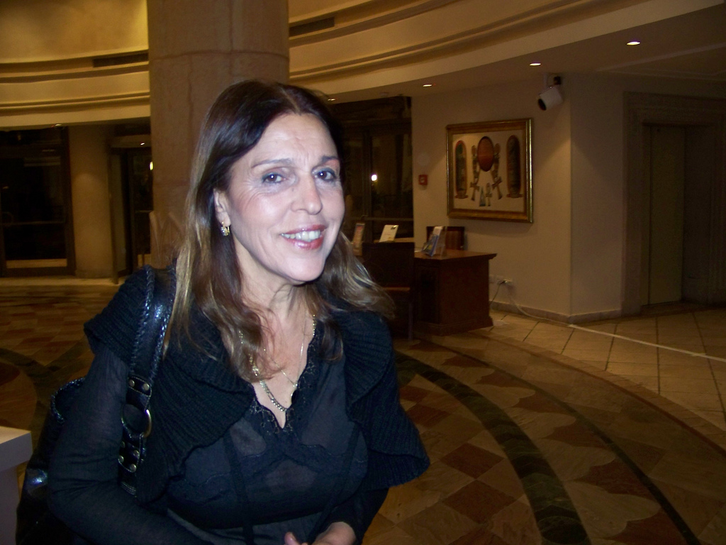 Carmela Menashe, Kol Israel's military correspondent